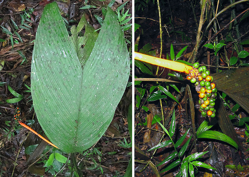 Native from southern Nicaragua to Panama. Photo from the Sarapiqui Valley, Costa Rica. In context at